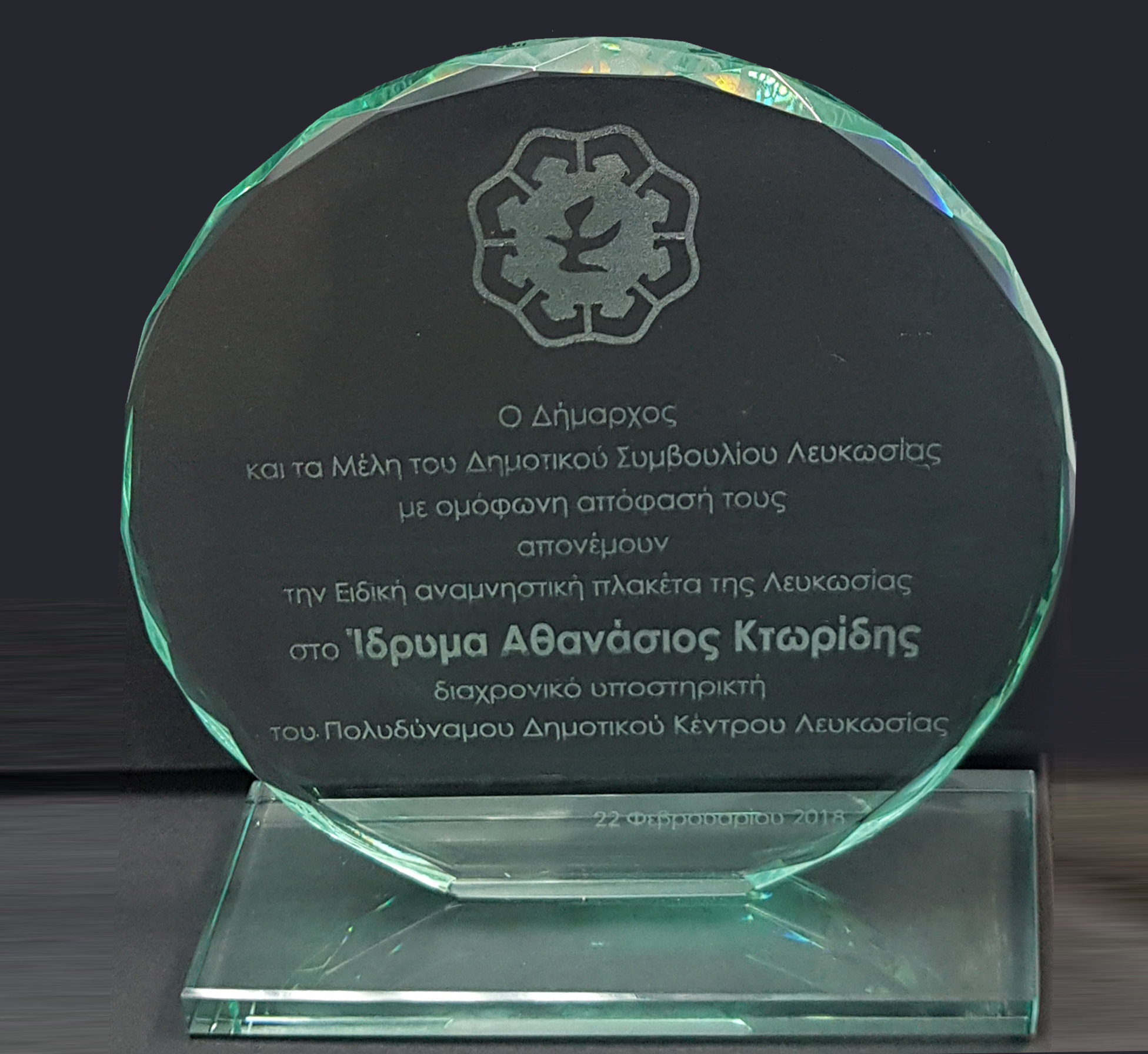 Nicosia ‘Special Honorary Award’ for Athanasios Ktorides Foundation, February 2018